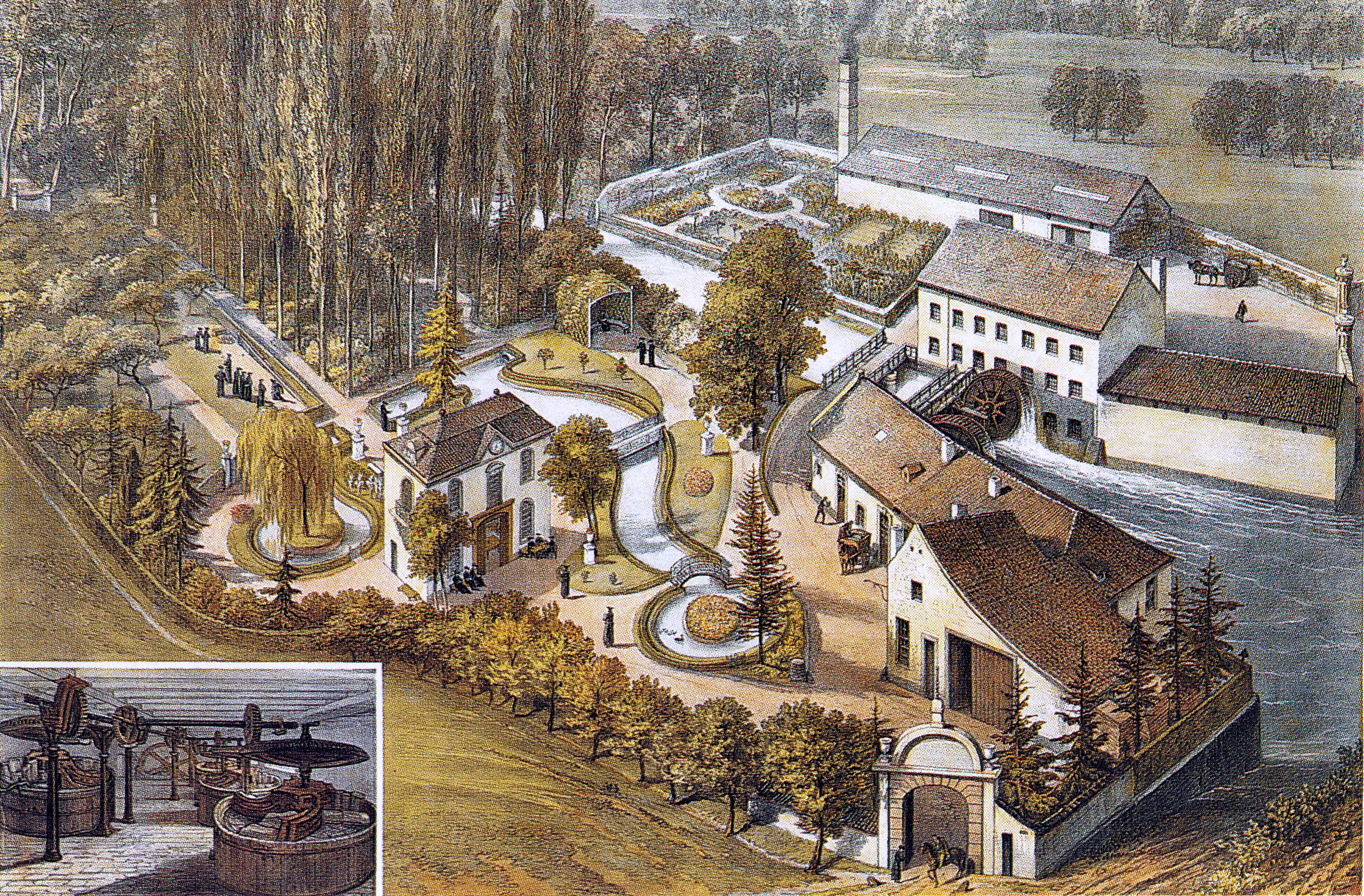 Bird view of Villa Canne and two watermills on the river Jeker near Maastricht, the Netherlands. The print was made by an unknown artist for an album that Petrus Regout - owner of Villa Canne - had put together in 1865 for family and friends.